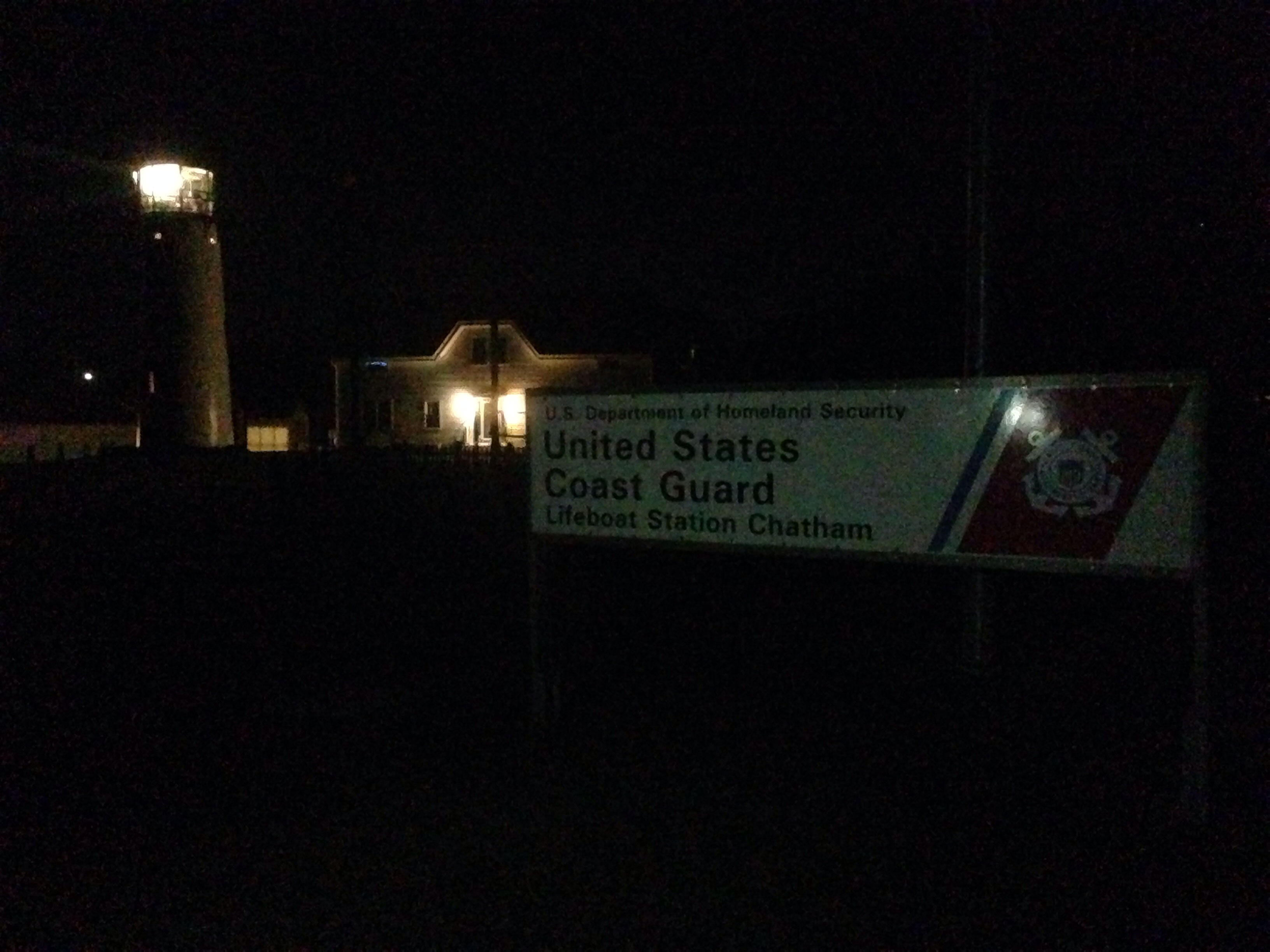 Station